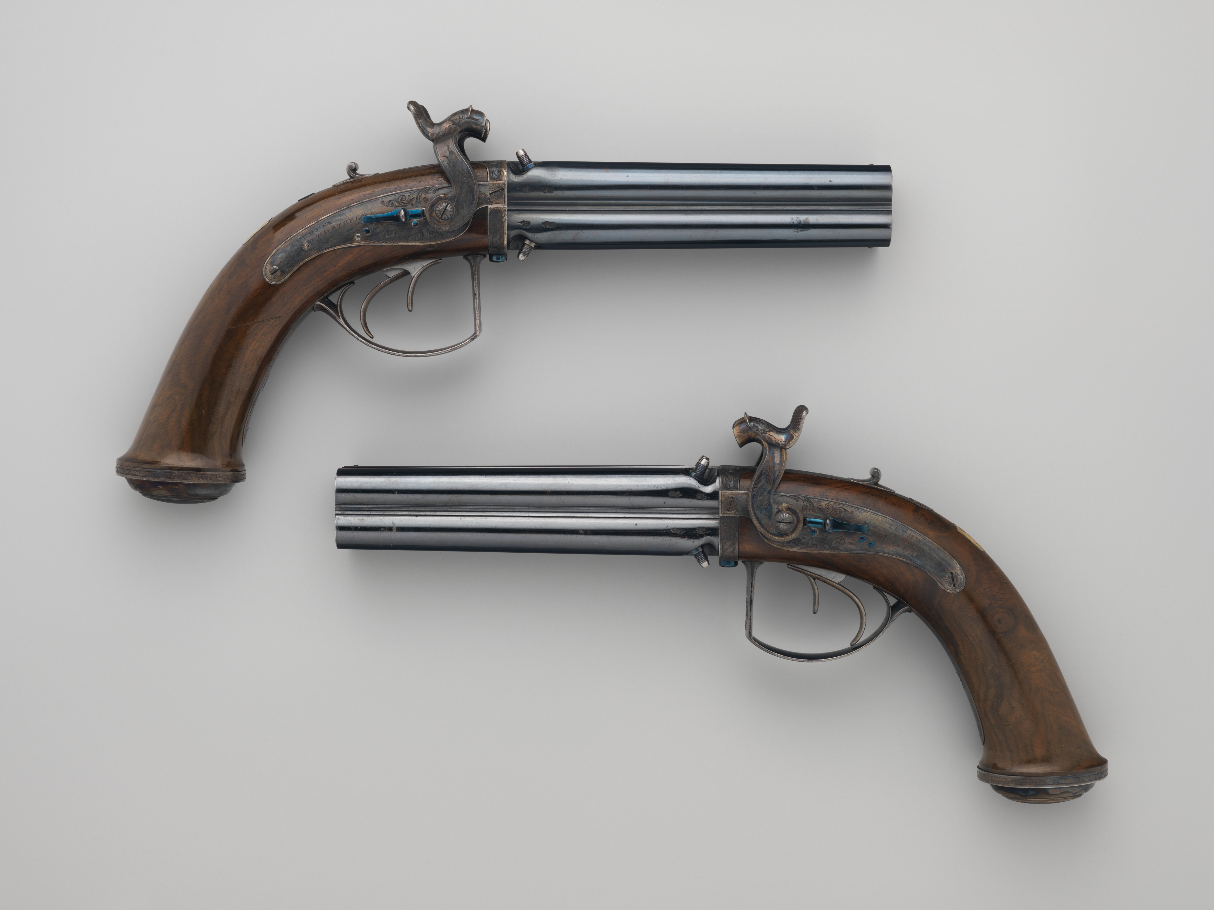 British, London; Pair of revolving percussion pistols; Firearms-Pistols-Percussion